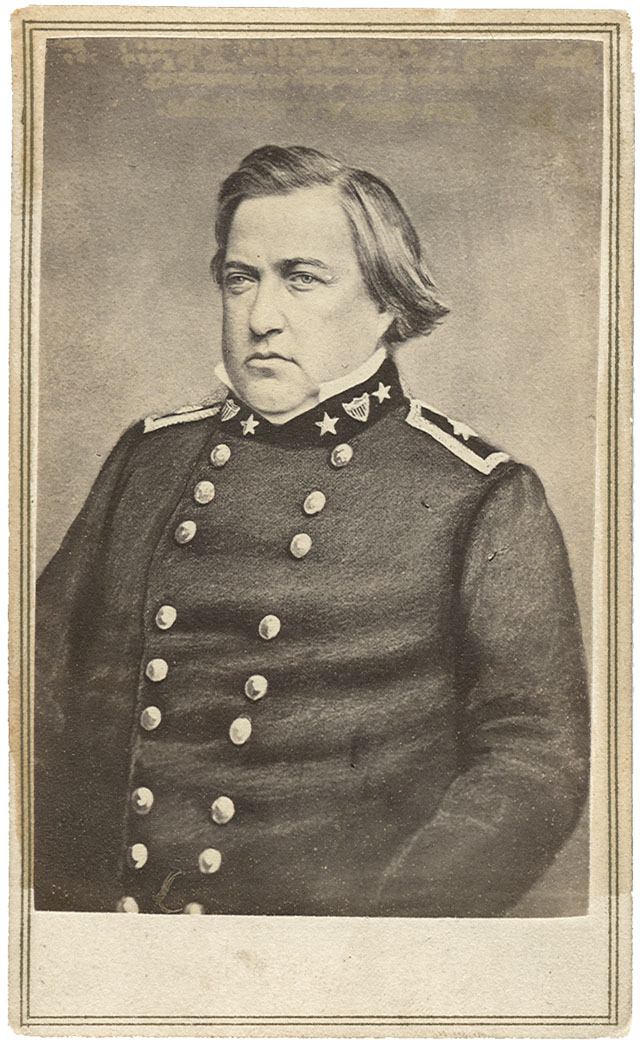 Confederate general Humphrey Marshall